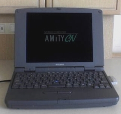 MITSUBISHI ELECTRIC MOBILE COMPUTER AMiTY CN model 3